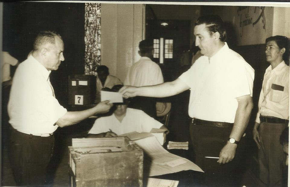 Elecciones 1973